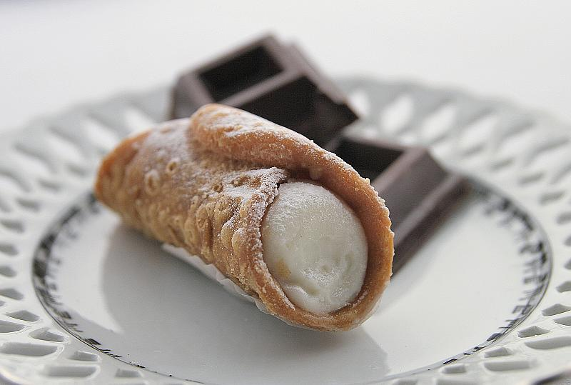 Cannolo siciliano with chocolate squares.